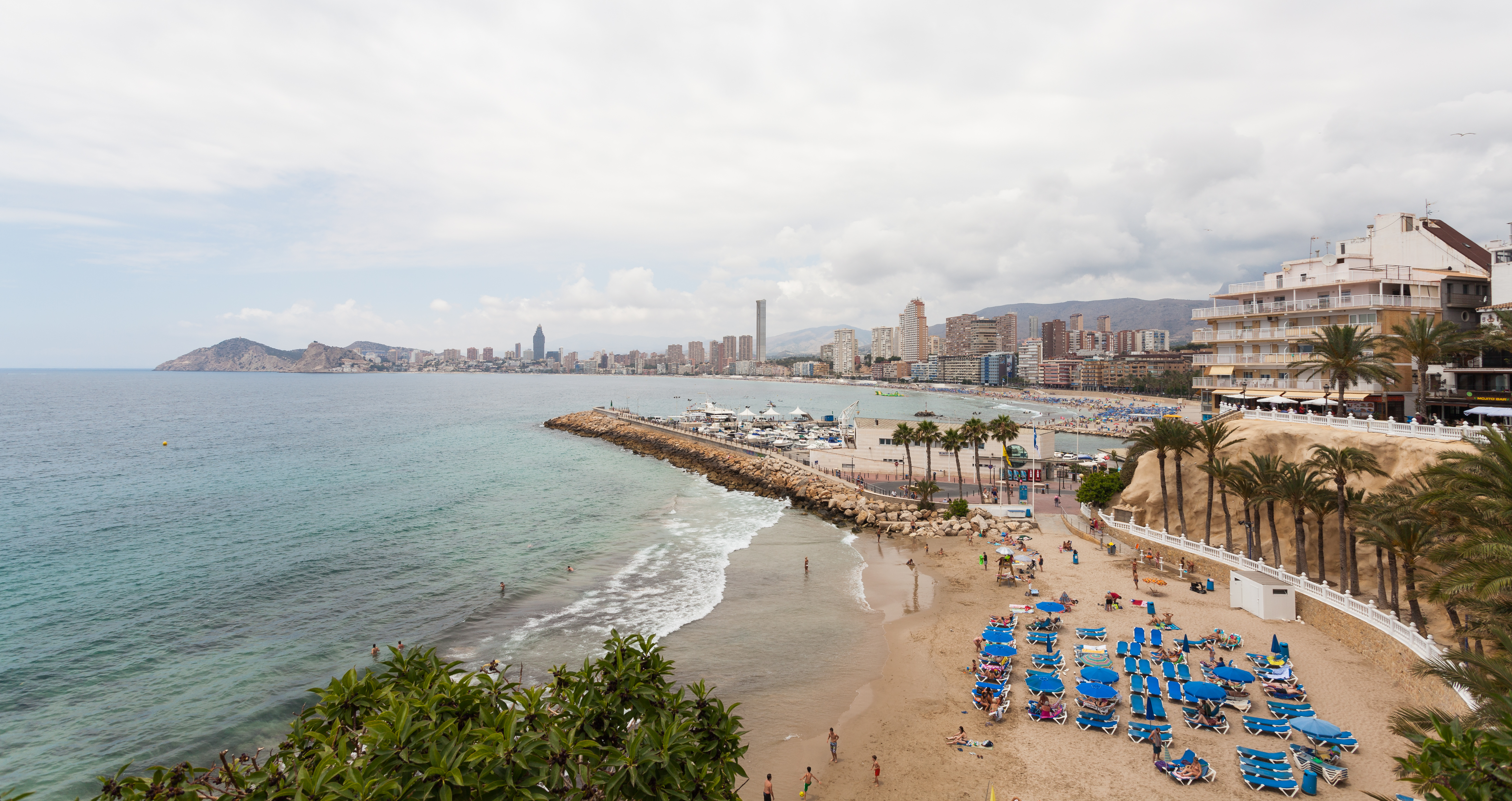 Poniente beach, Benidorm, Spain